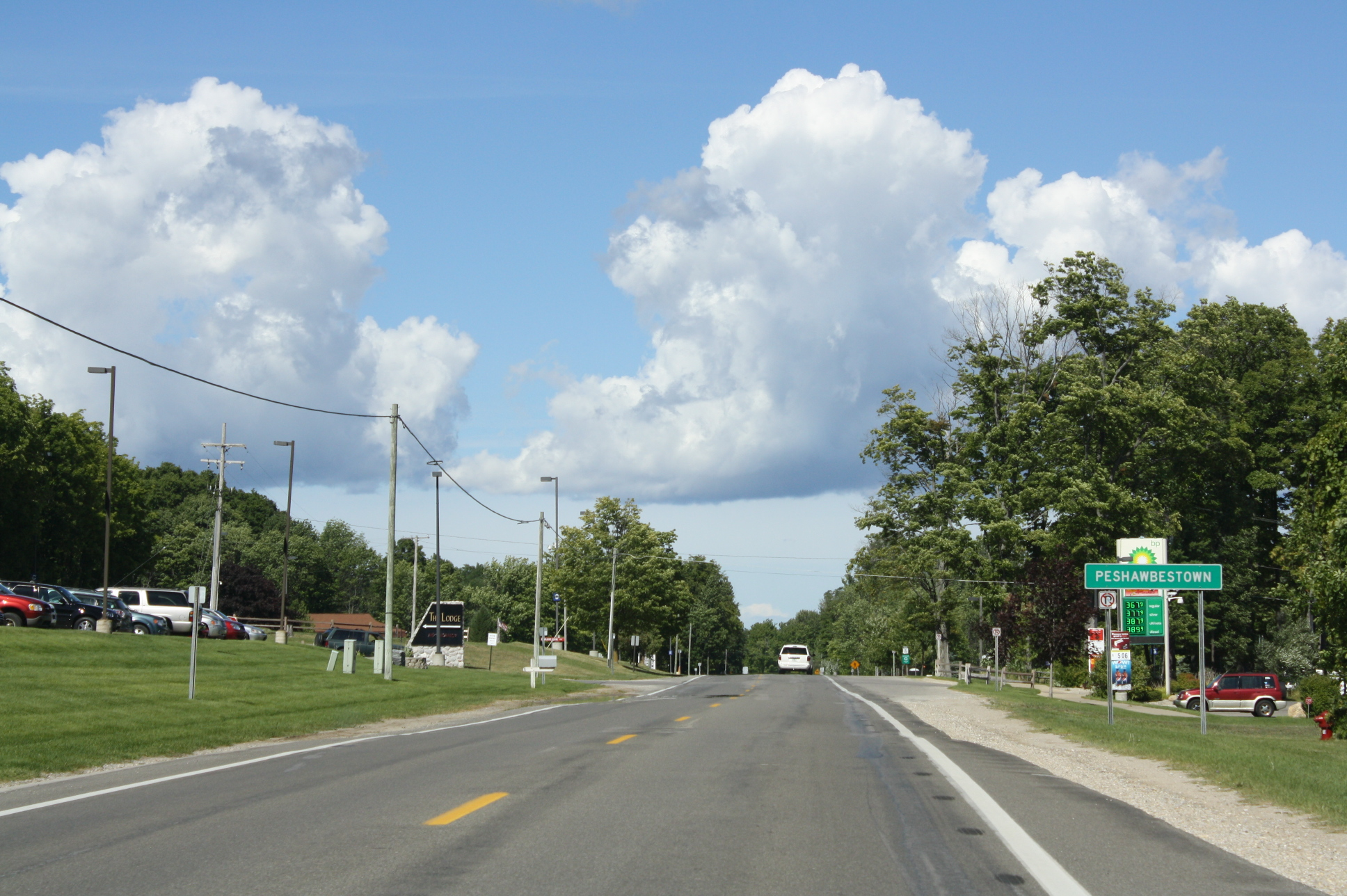 The sign for Peshawbestown, Michigan on M-22 (Michigan highway).